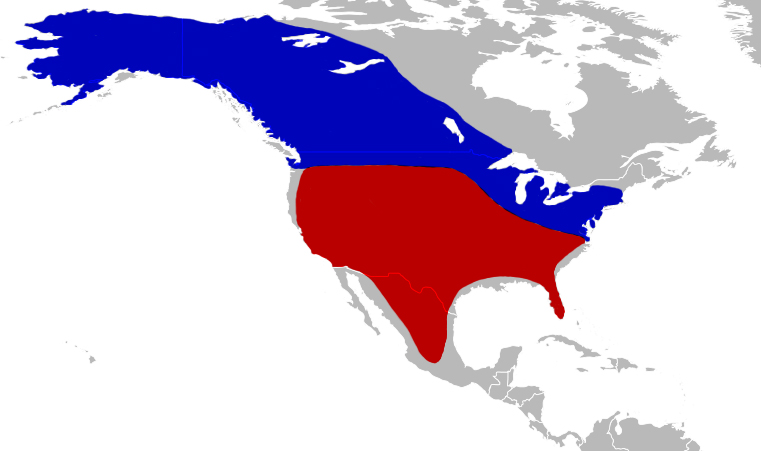 Possible ranges of the Columbian mammoth (red) and the woolly mammoth (blue) in North America, based on fossil remains.